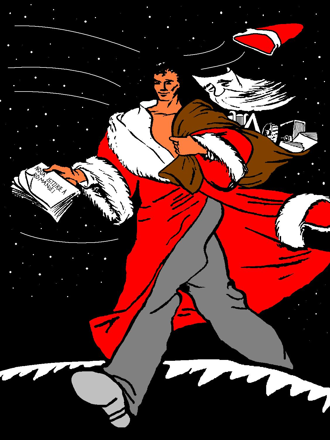 A pic of Moş Gerilă seen in a Romanian communist newspaper called Natiunea edited in 25th december 1947